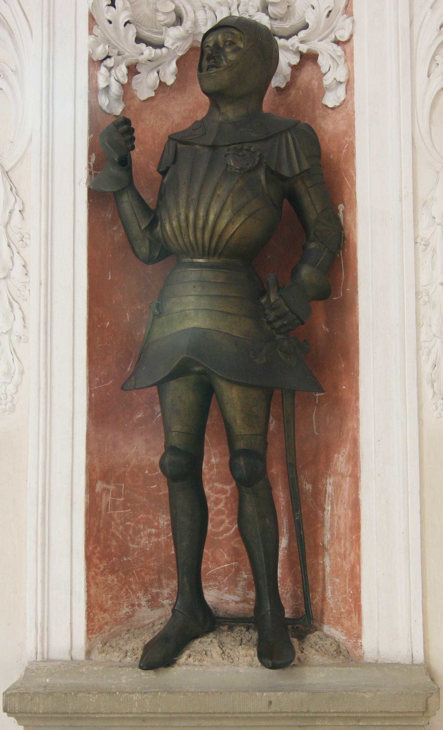 Statue of Konrad (IX.) von Weinsberg in the church of Schöntal monastery